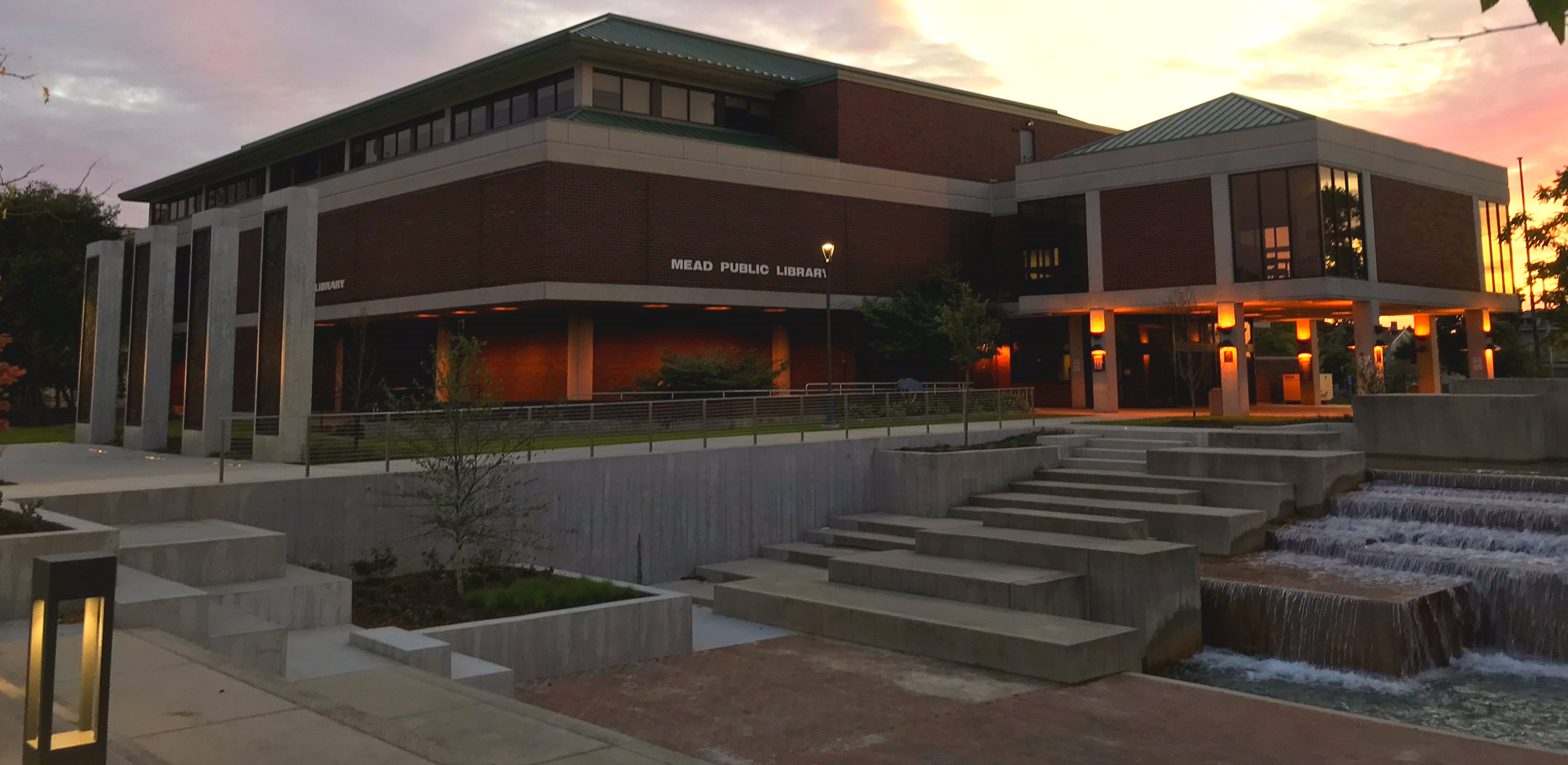 Mead Public Library and its new pedestrian plaza seen during sunset on an October 2019 evening, along with the library's longtime water feature.